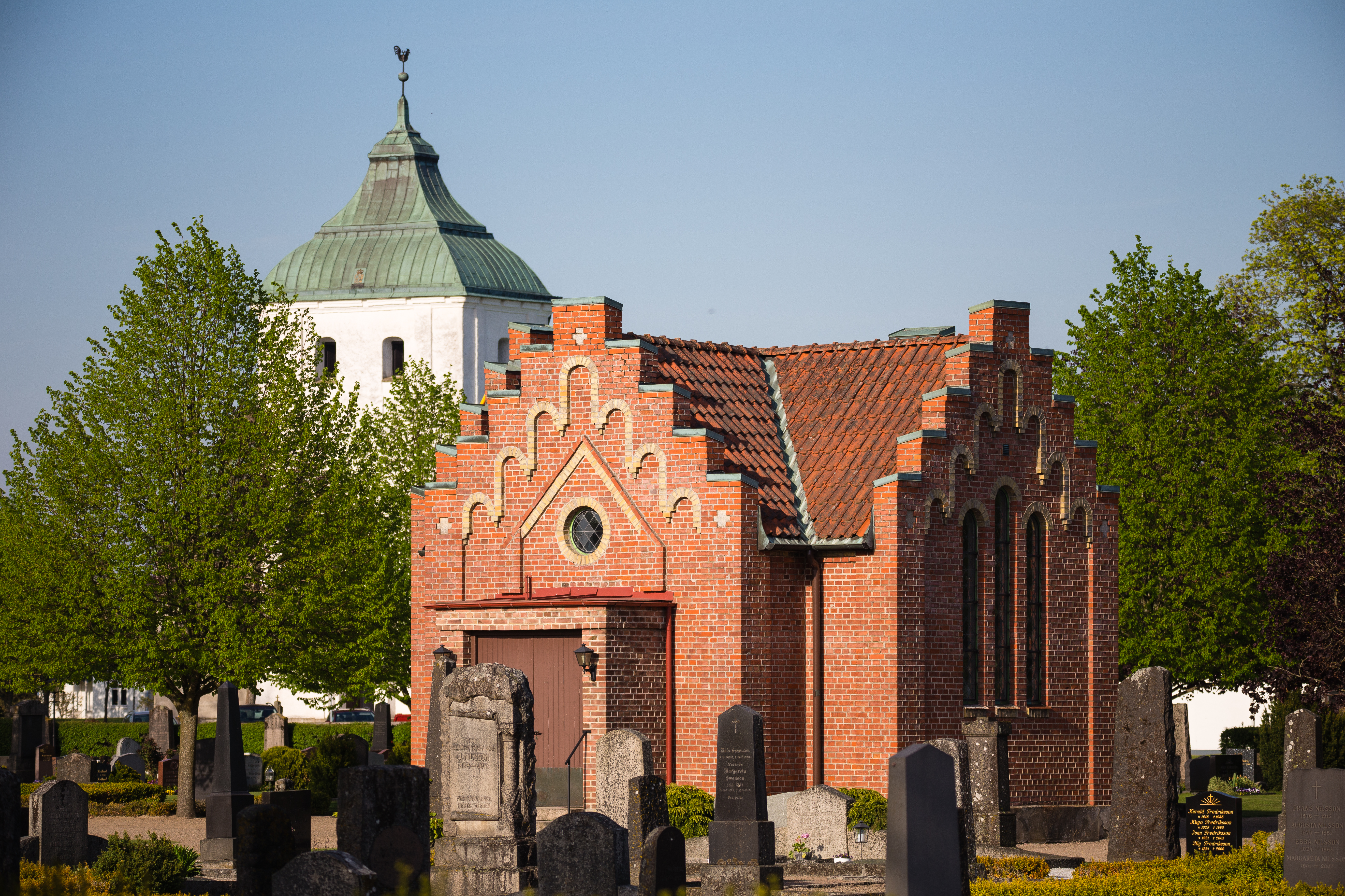 Cemetery chapel in Vinslöv, Sweden